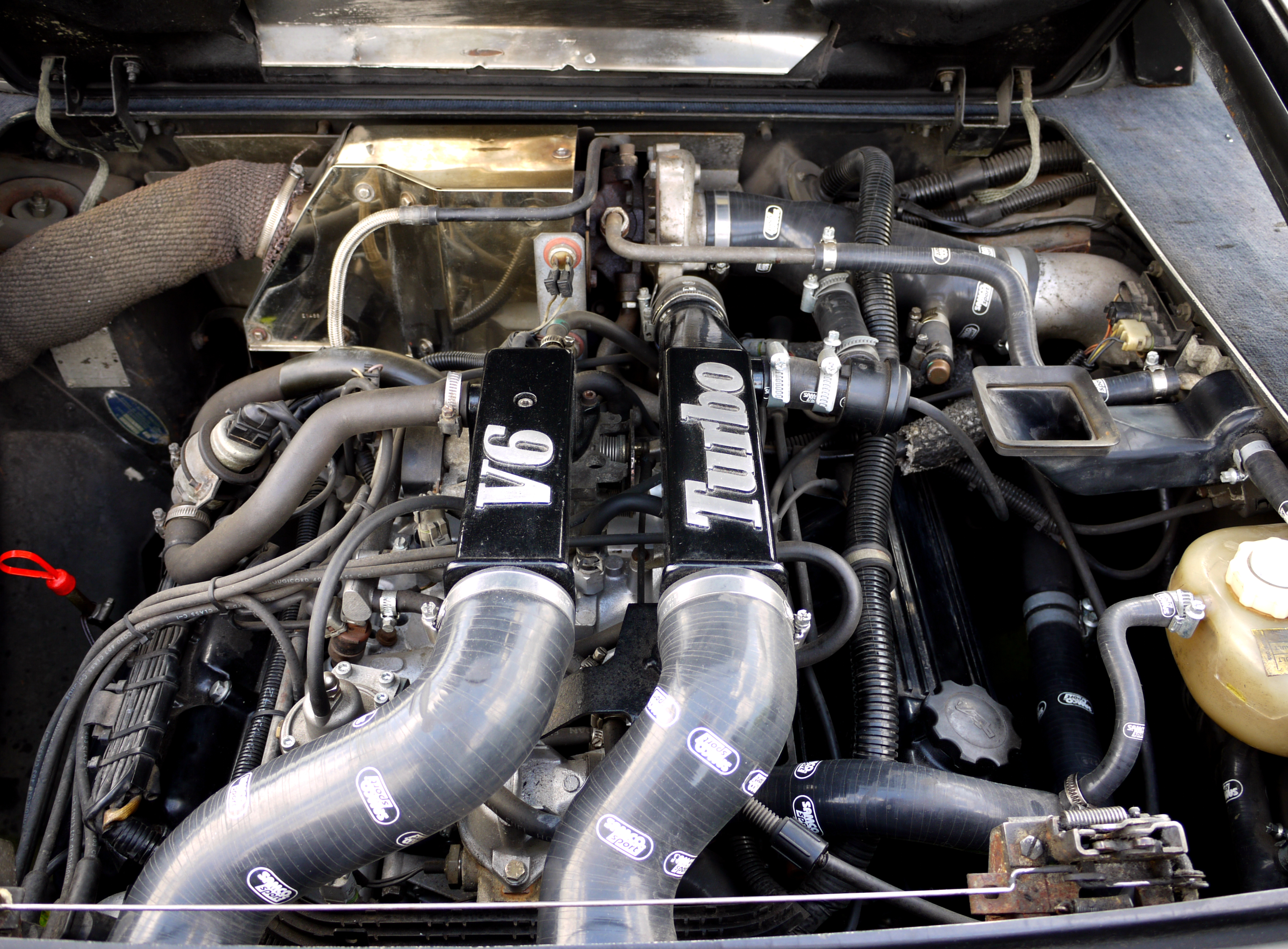 1989 Renault Alpine GTA famous PRV V6 engine - in its turbo version.